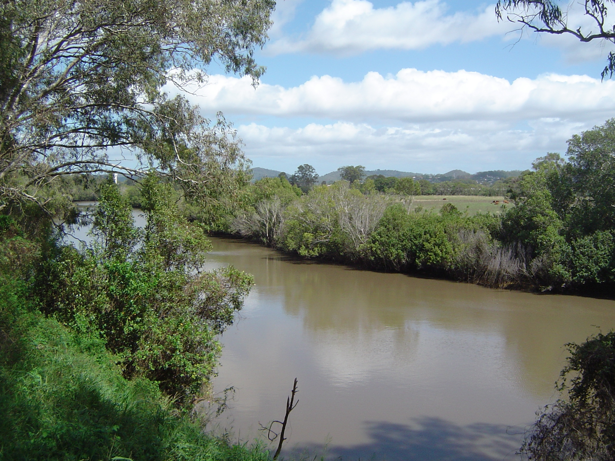 Photo of Albert River at Stapylton from Quinns Hill Road West at Stapylton, Queensland, Australia. Eagleby is visible on opposite bank.